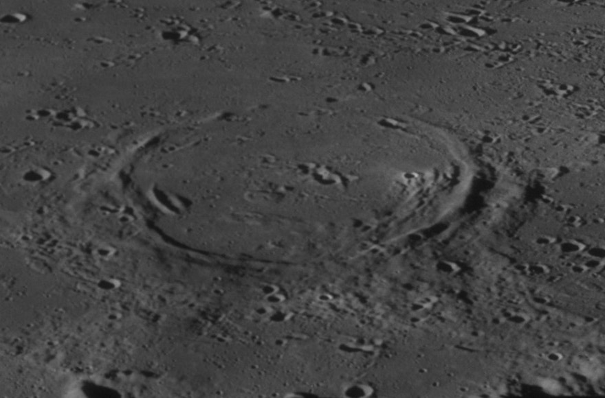 Oblique view of Daguerre crater, Mare Nectaris, on the moon, facing south.